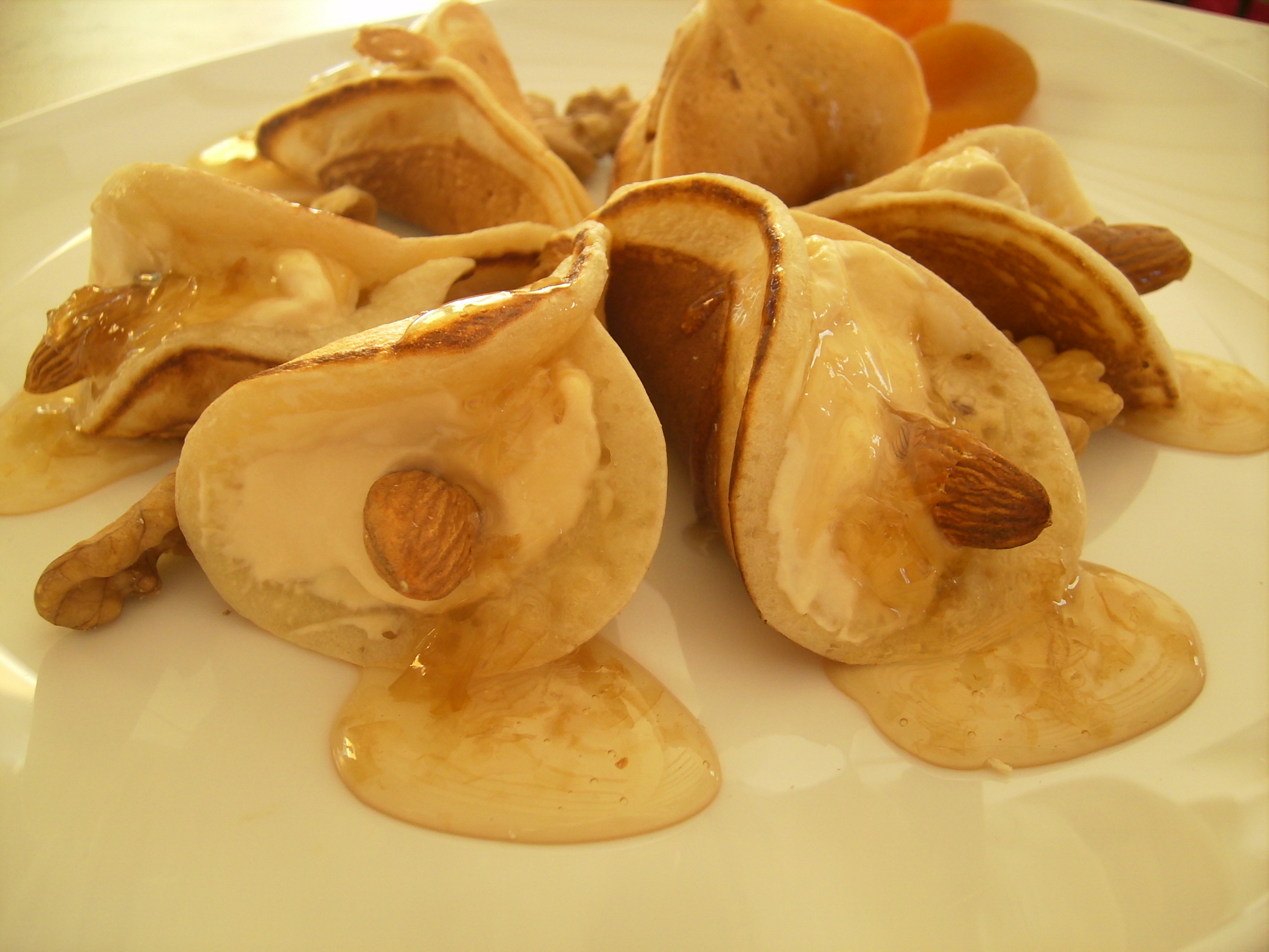 Lebanese Atayef Asafeeri.